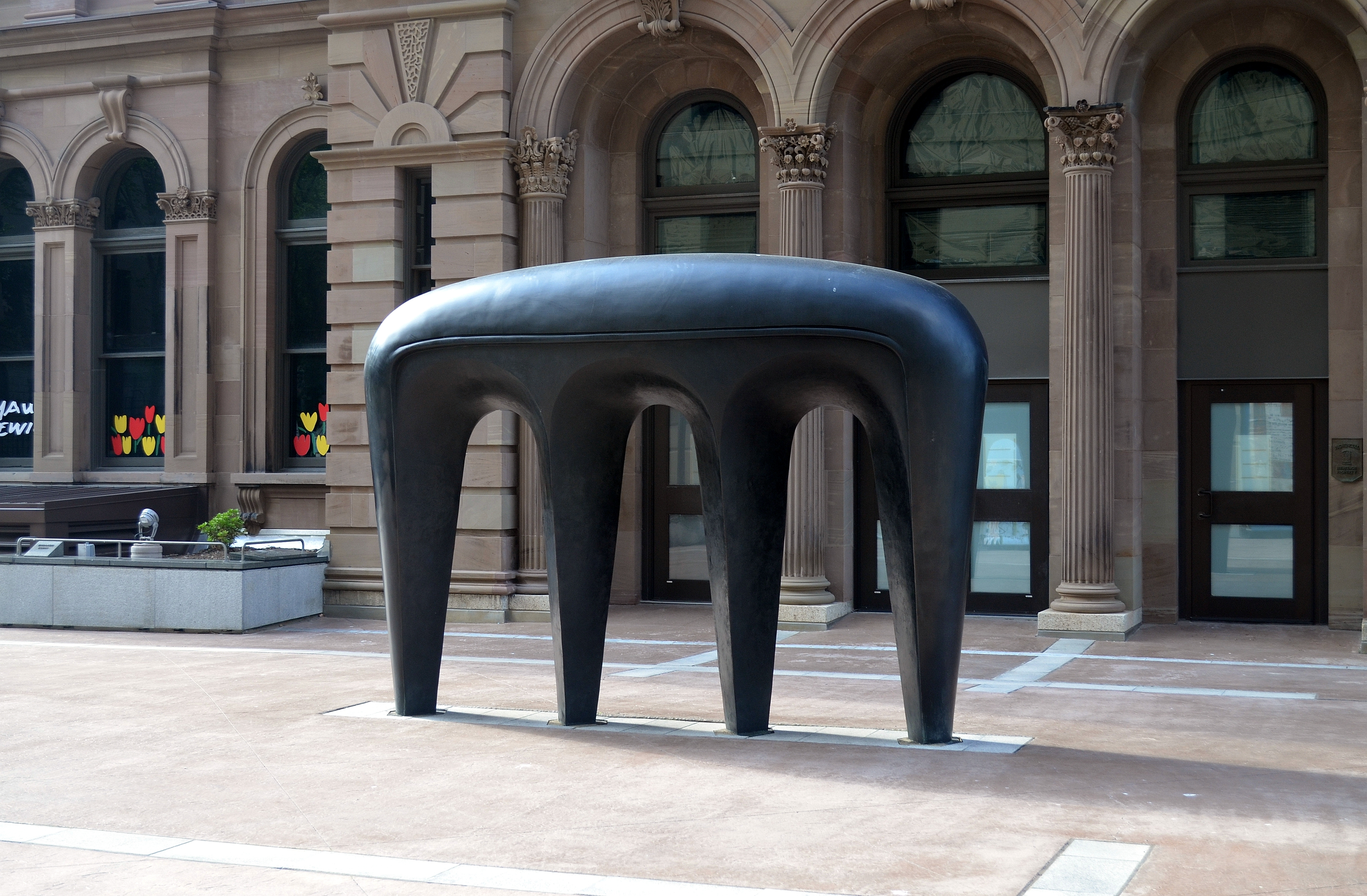 Origins, a 1995 bronze sculpture by John Greer. Located in Ondaatje Court outside the Art Gallery of Nova Scotia in downtown Halifax, Nova Scotia, Canada.